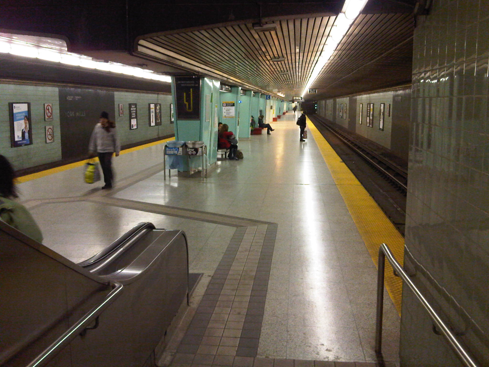 View of the livery and platform of York Mills station on the TTC's Yonge-University-Spadina subway line. Taken from the alcove adjacent to the stairs and escalators.